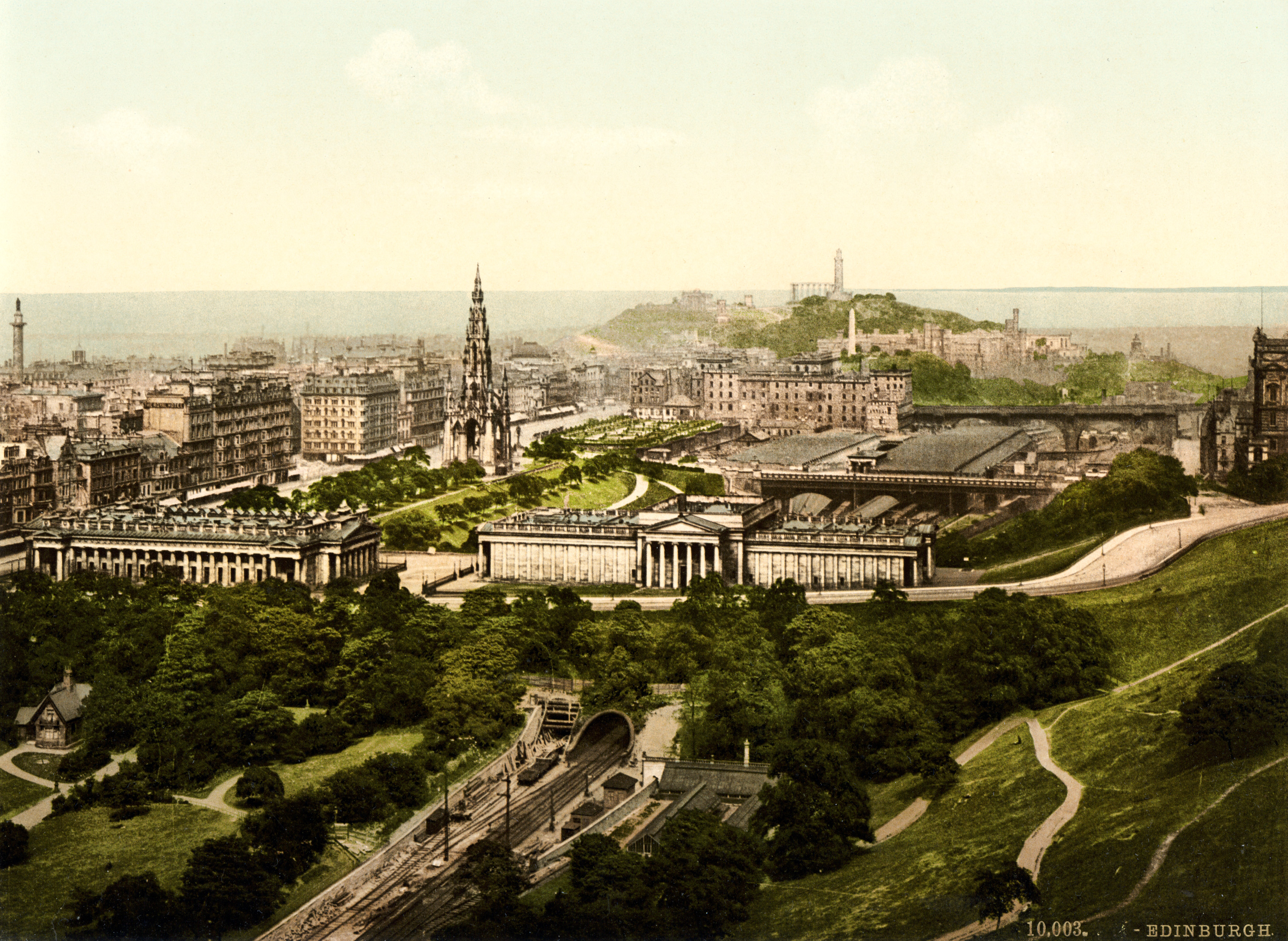 View of city of Edinburgh, from Edinburgh Castle. 1 photomechanical print : photochrom, color.